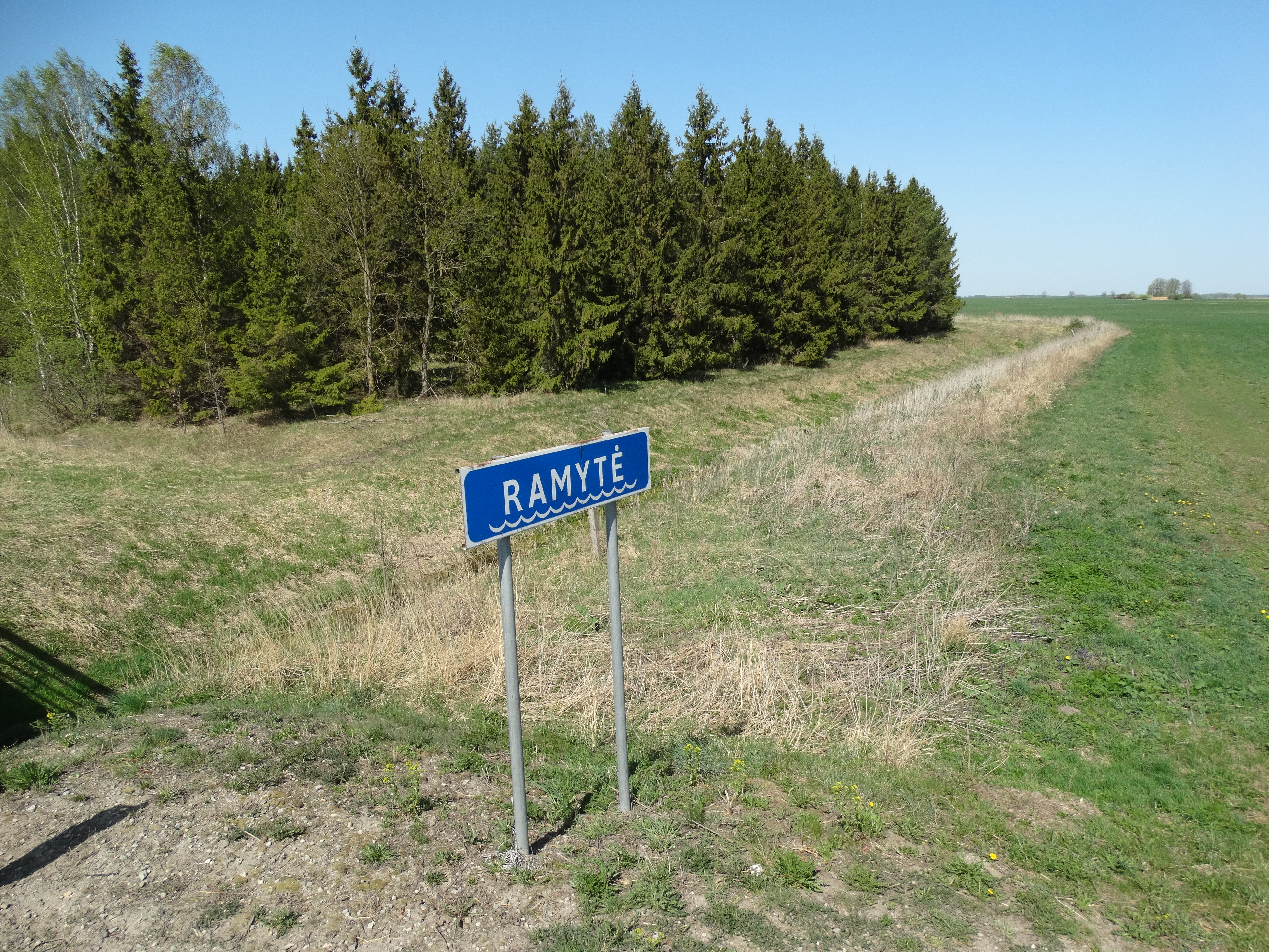 Ramytė stream, by Tarvydai, Pakruojis district, Lithuania